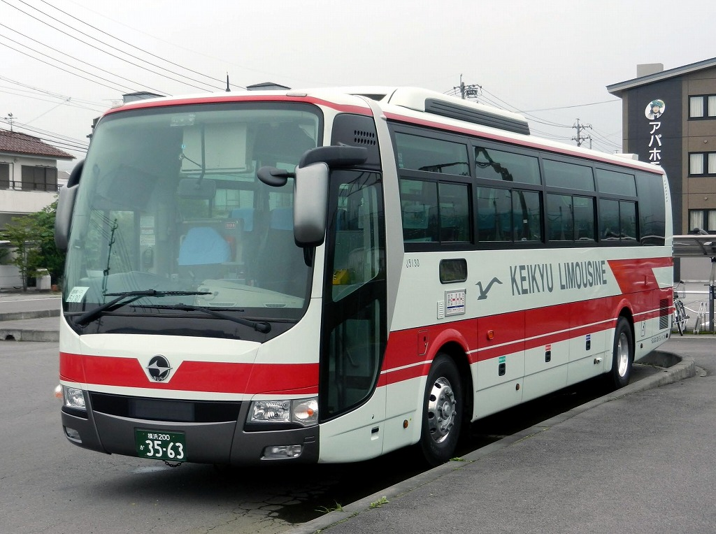 Keihin kyuko bus (Shin-Koyasu office) Mitsubishi Fuso Aero Ace (LKG-MS96VP)